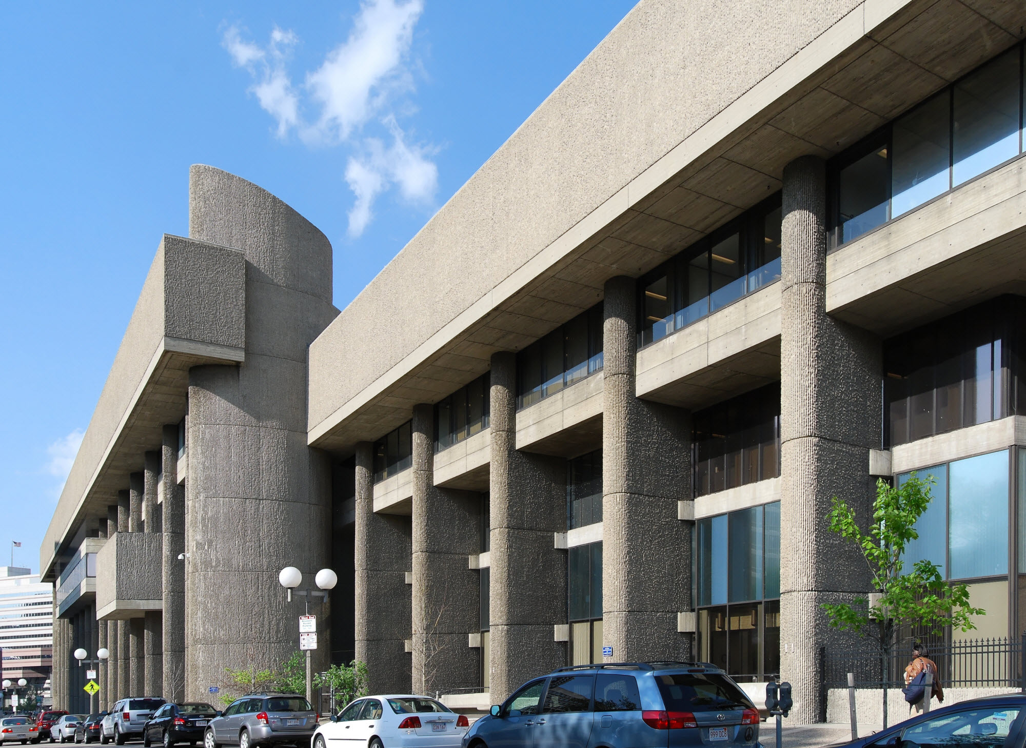 Government Services Building, Boston, Massachusetts